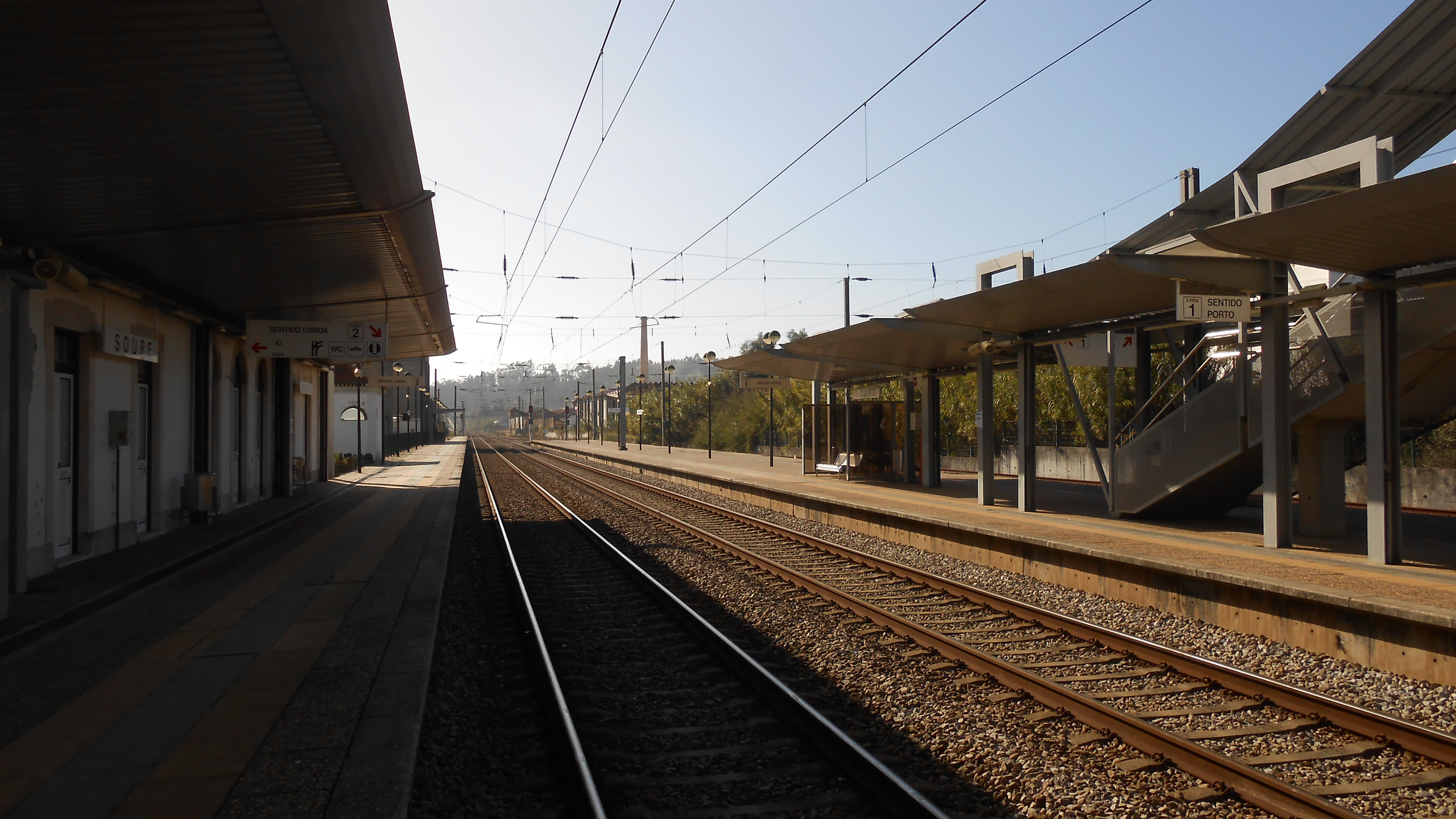 The Soure train station, nowerdays working as a halt only.